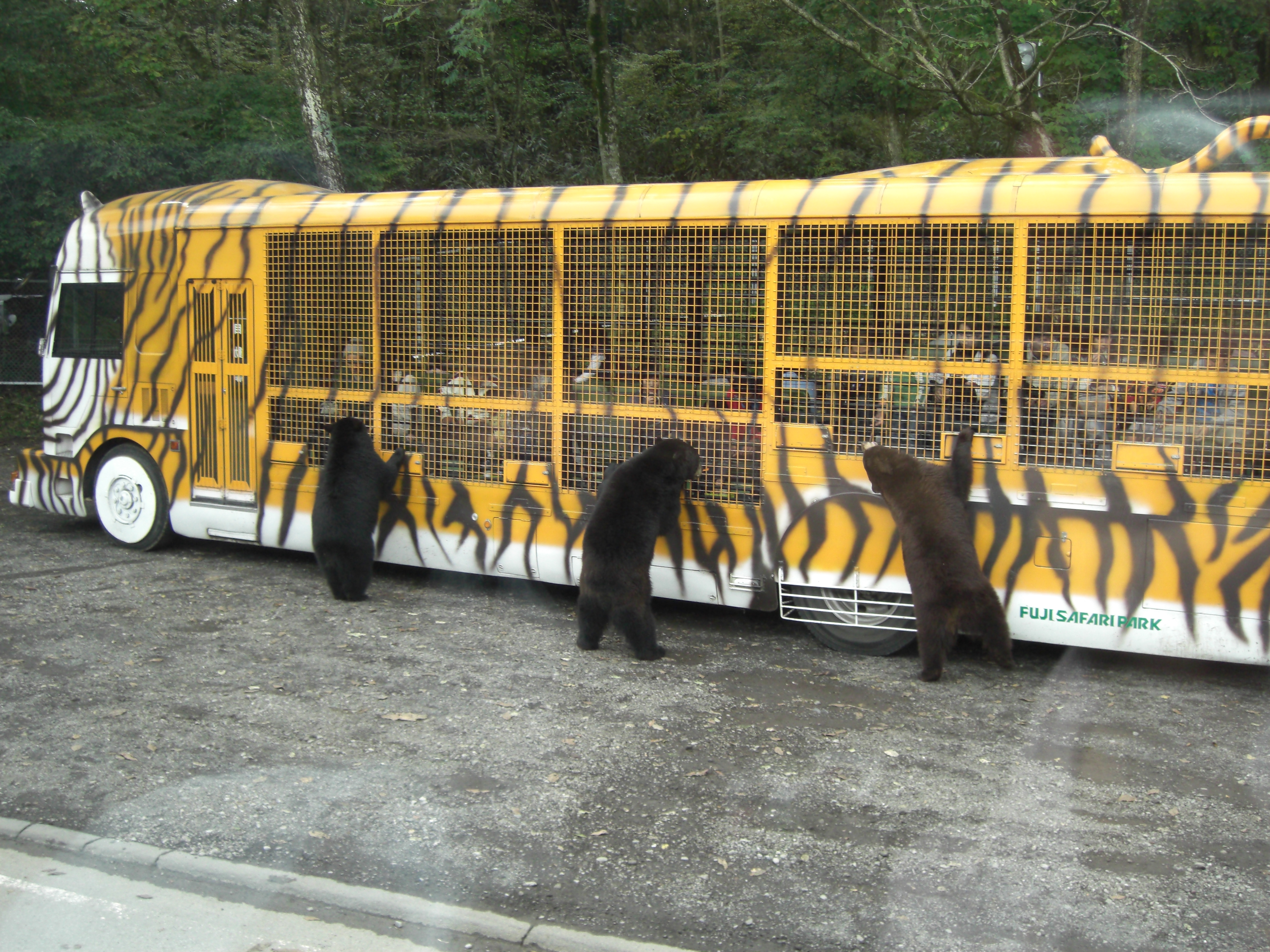 Fuji safari park